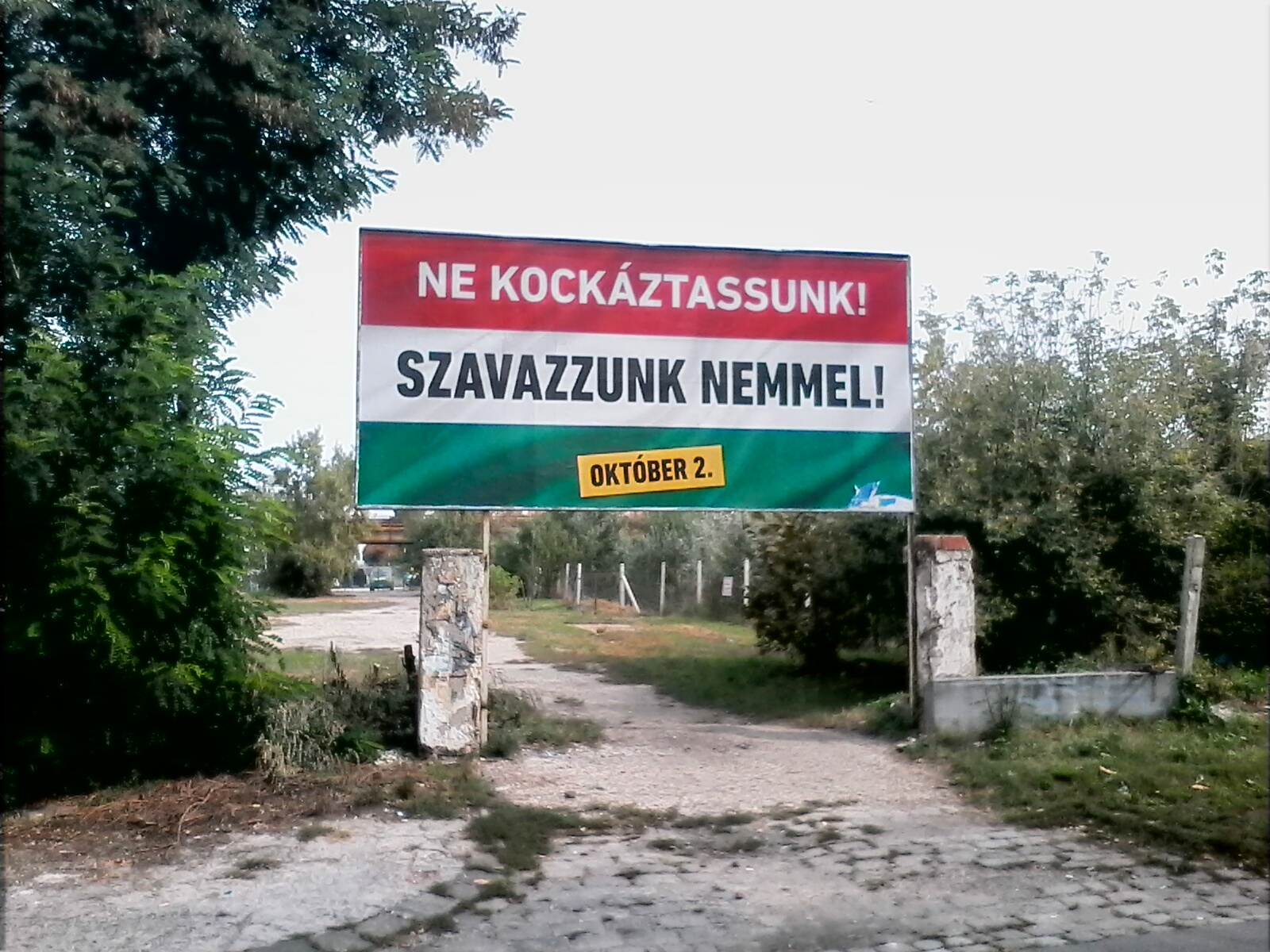 One of the Fidesz-KDNP government's billboards a few days before the 2016 Hungarian quota referendum, advocating a "no" vote. Translation of billboard text: "Let's not take chances! Let's vote no! October 2"